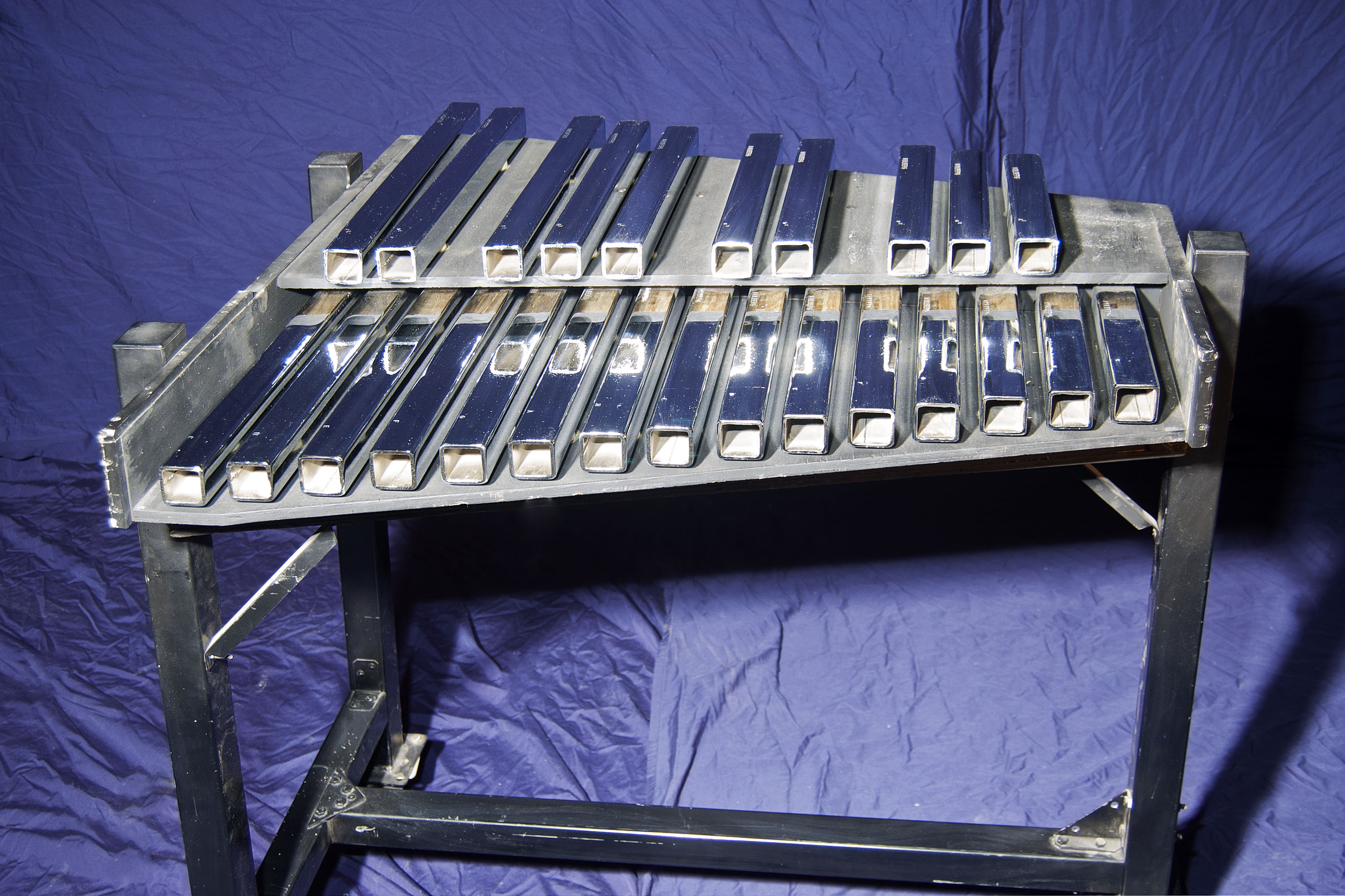 Tuned Anvils from Emil Richards Collection